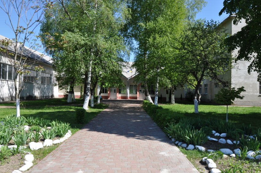 School of general education №4